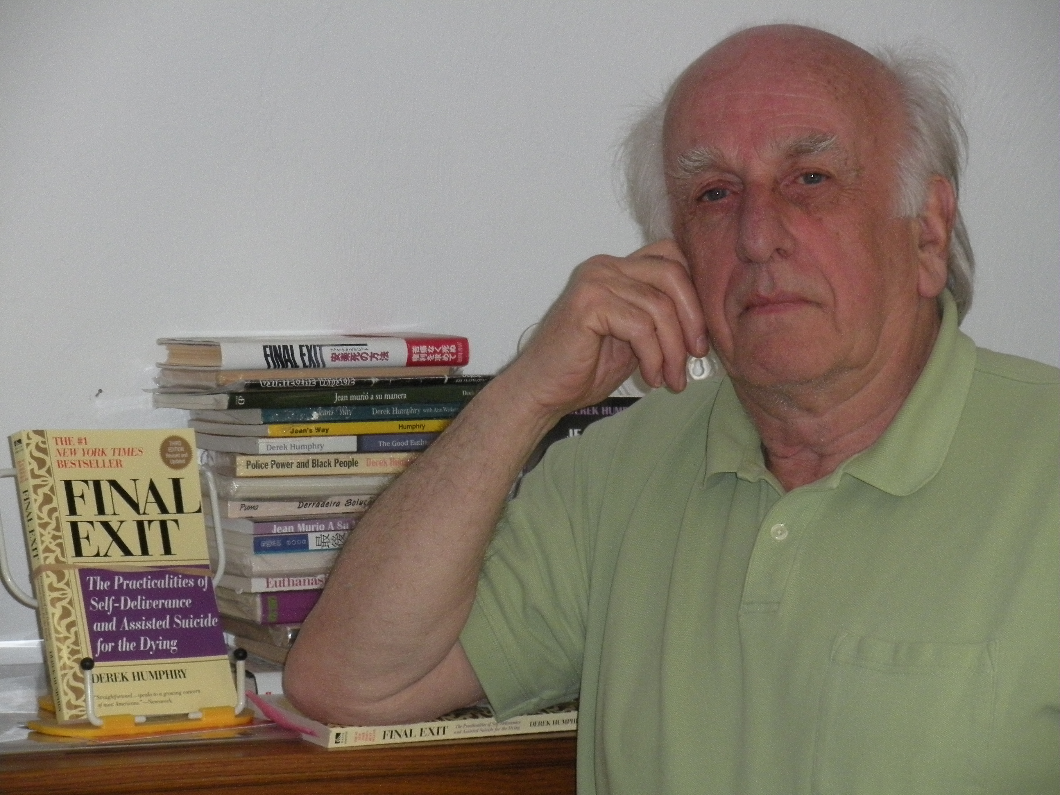 Work for hire of Derek Humphry